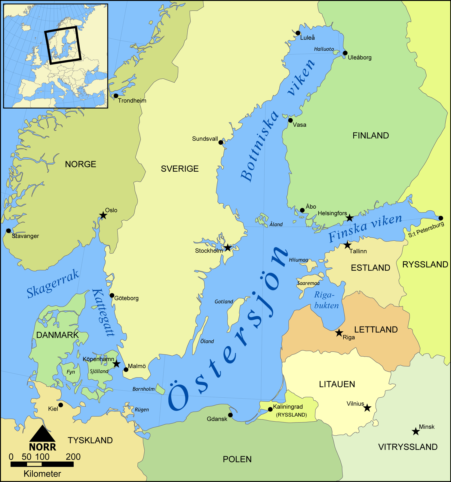 Map of the Baltic Sea. Created by NormanEinstein, May 25, 2006.